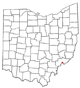 Map of Ohio, USA; Point=Marietta